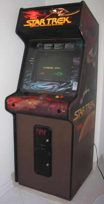 Picture of my personal Star Trek arcade machine.